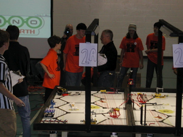 The Nano Quest field for FIRST Lego League